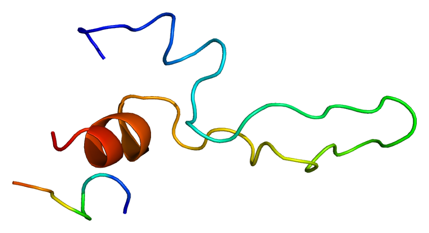 Structure of the CCKAR protein. Based on PyMOL rendering of PDB 1d6g.